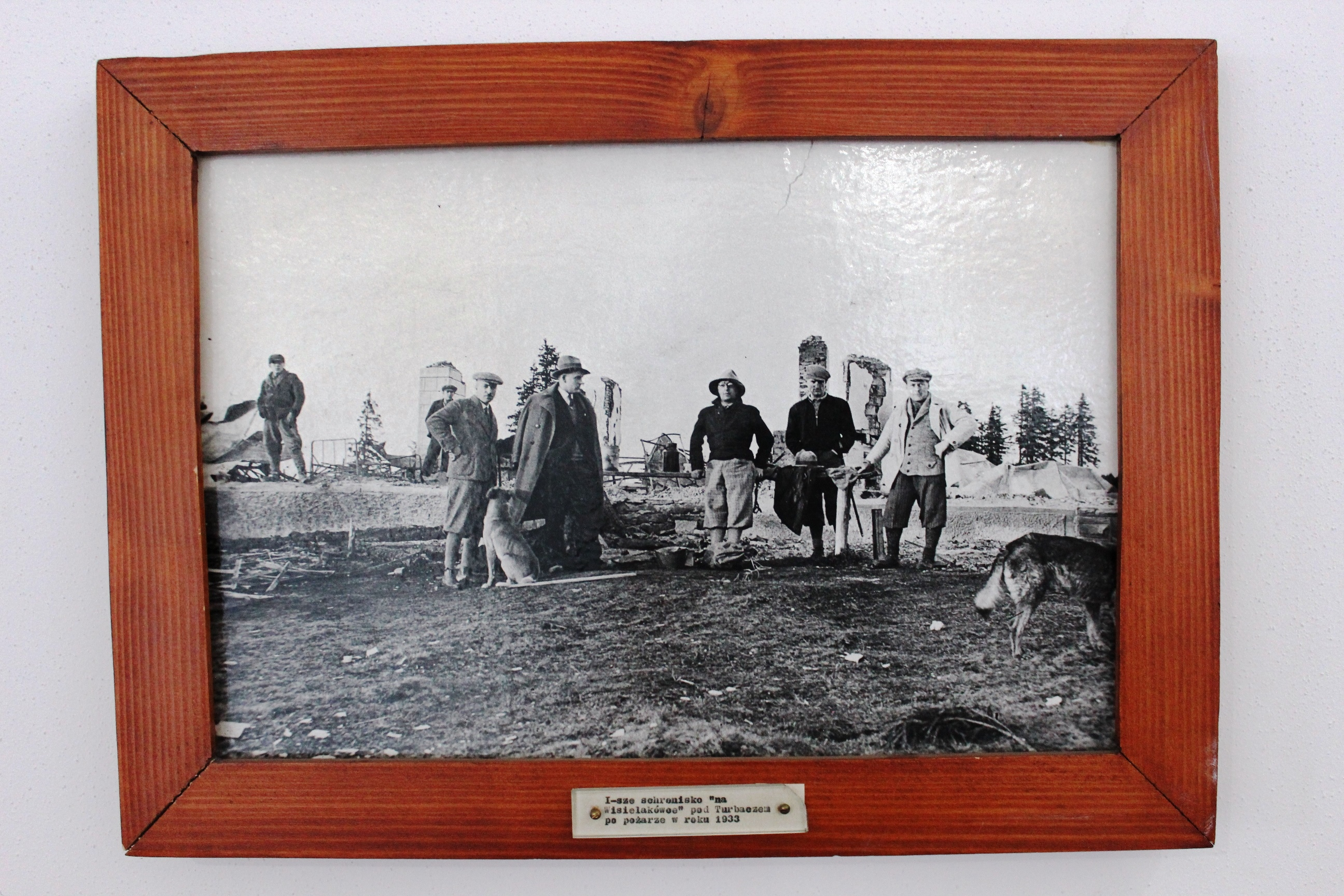 Turbacz Cultural Centre of Mountain Tourism